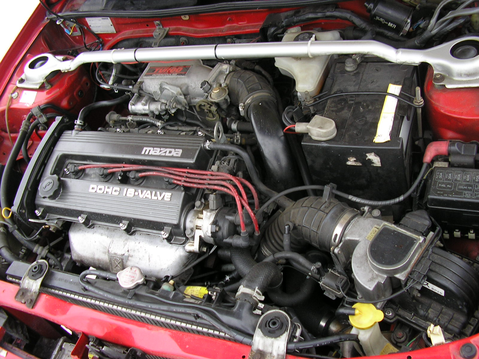 The Mazda BTP engine in the Mazda 323 GTX.